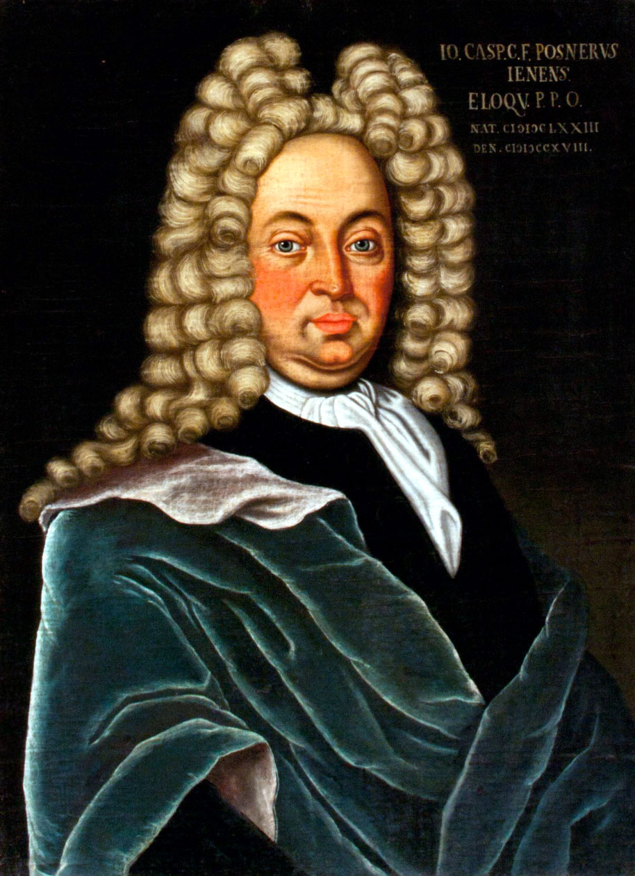 Johann Caspar Posner (1670-1718) German physicist and rhetorician